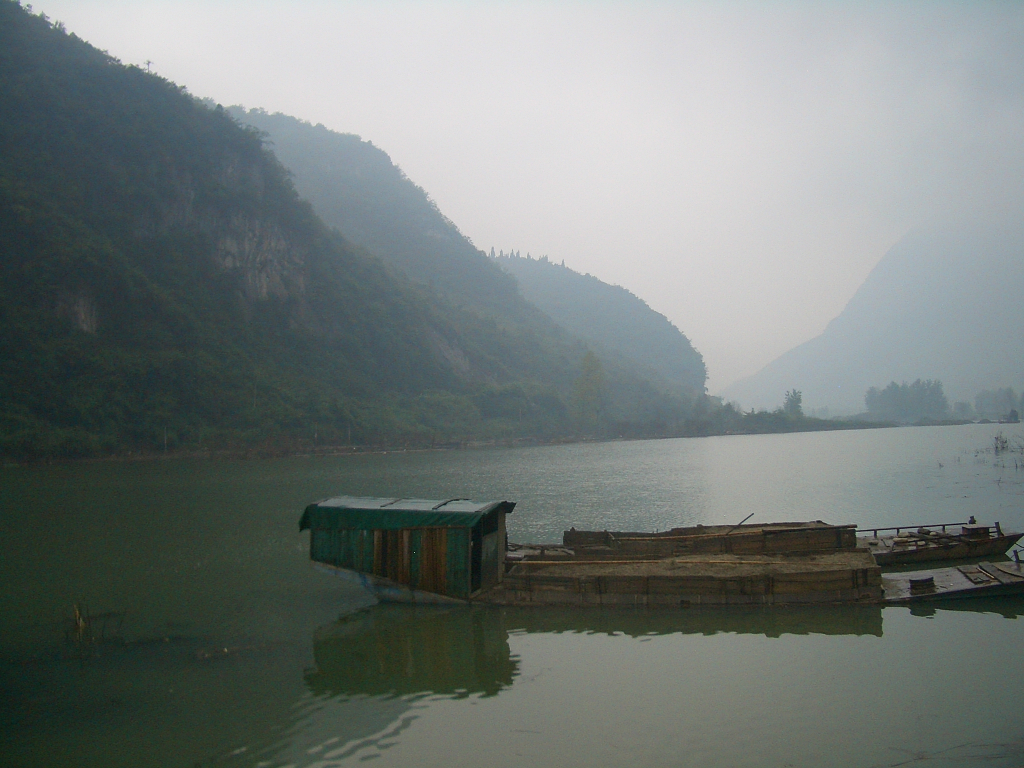 Boats used to ferry sand/gravel dredged from the bottom of a lake (the Hengshi River bay of the Fushui Reservoir) to a makeshift dock on the side of Highway G106. Picture taken in Tongshan County, between Tongyang Town and Jiugong Town (Hengshitan), probably somewhere a bit south of Fuyou Village (富有村).